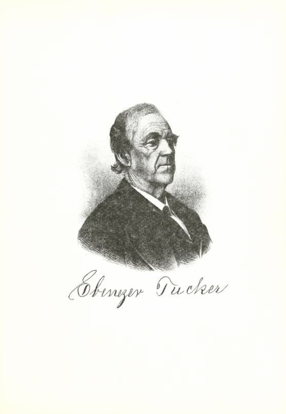 Ebenezer Tucker, teacher and principal at Union Literary Institute. Picture from his History of Randolph County, Indiana.